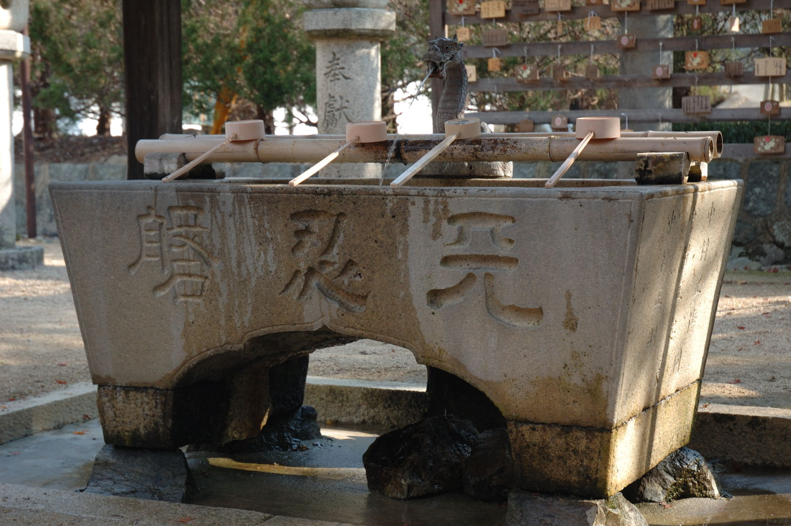 the washbowl in front of the school